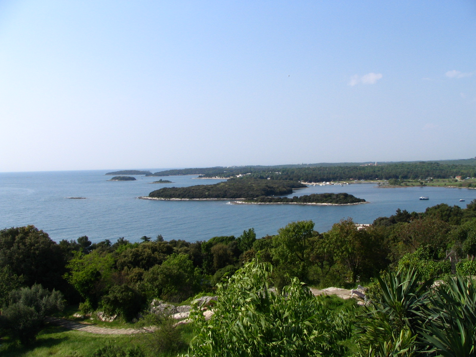 View. City of Vrsar (croatia). Own photo